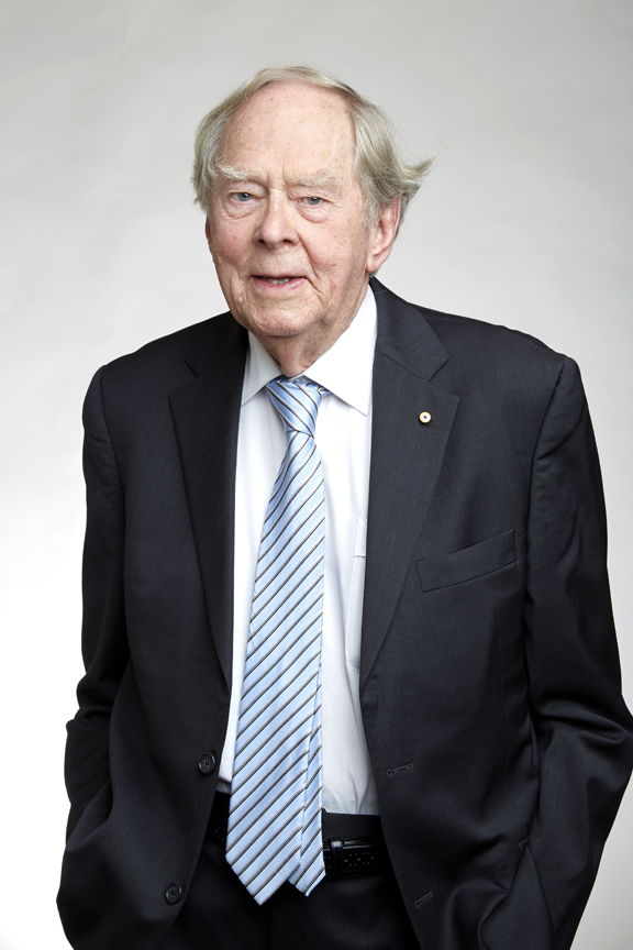 Graeme Jameson is an engineer, professor and director of the centre for multiphase processes at the University of Newcastle in New South Wales, Australia Attribution: The Royal Society